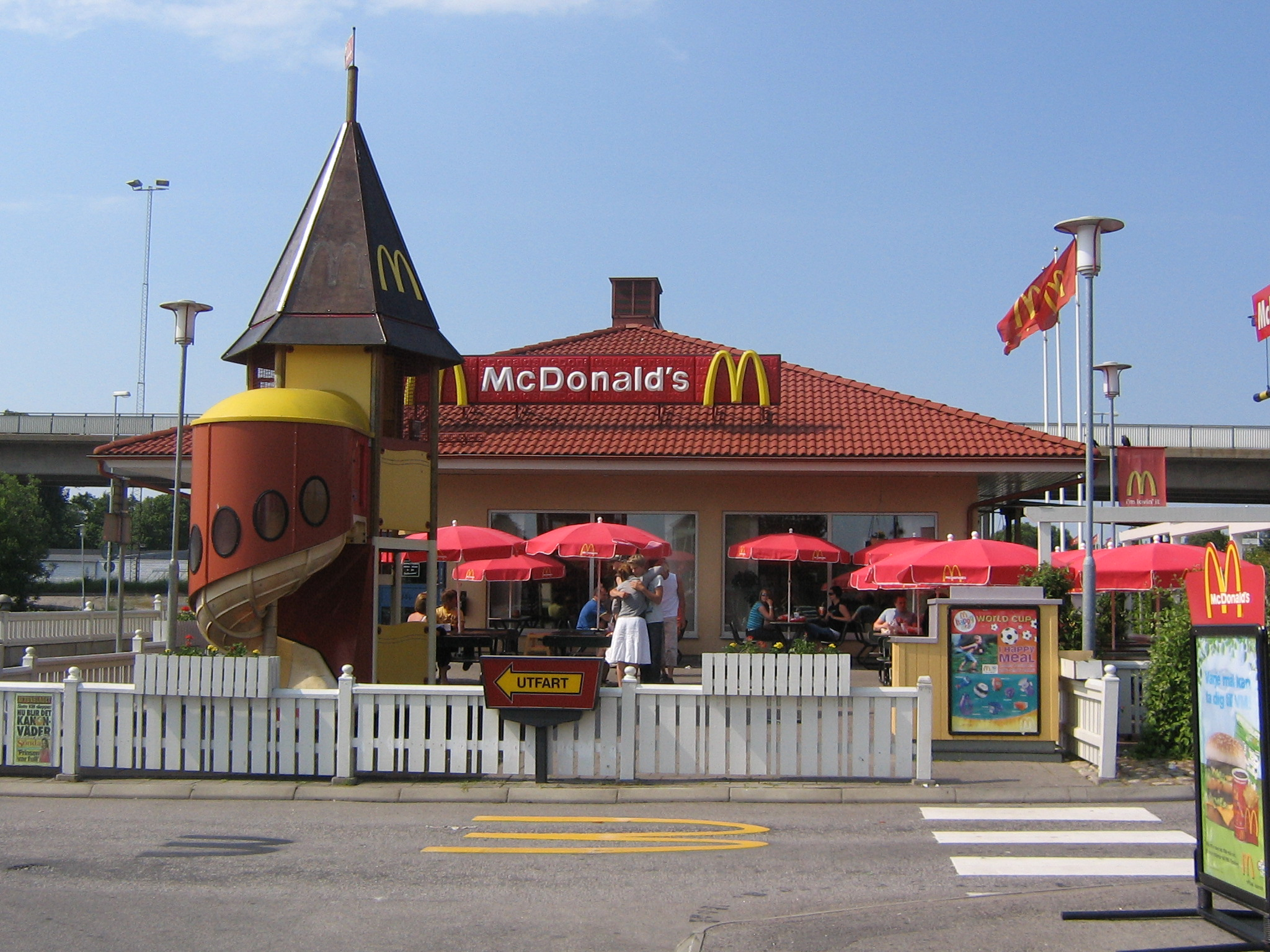 A McDonald's restaurant in Karlshamn, Sweden.